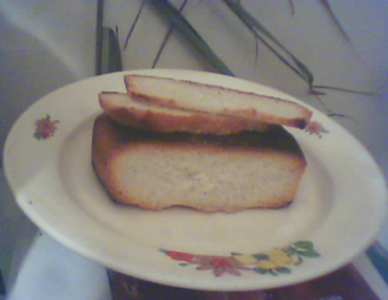 Lipie or Pită (pronunciation: [ˈPitə]) is a flat leavened or unleavened bread like a pancake.